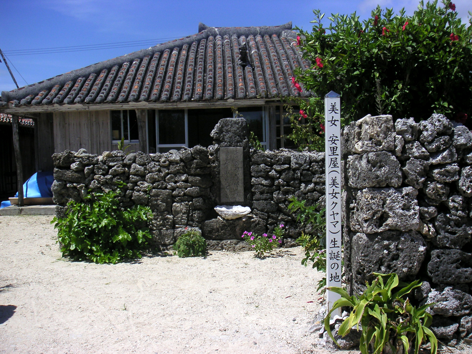 House of Asatoya Kuyama, Taketomi Island, Okinawa, Japan